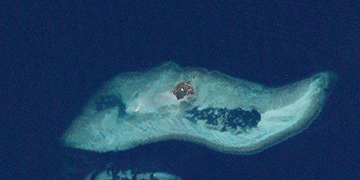 Stephens Island, northeast Torres Strait Islands, Queensland, Australia Unknown